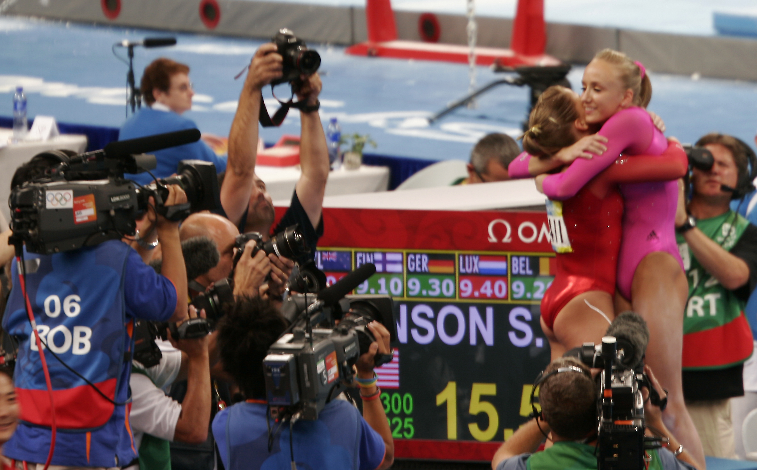 Liukin hugs Johnson after finding out she will receive the gold medal and Johnson will receive silver.